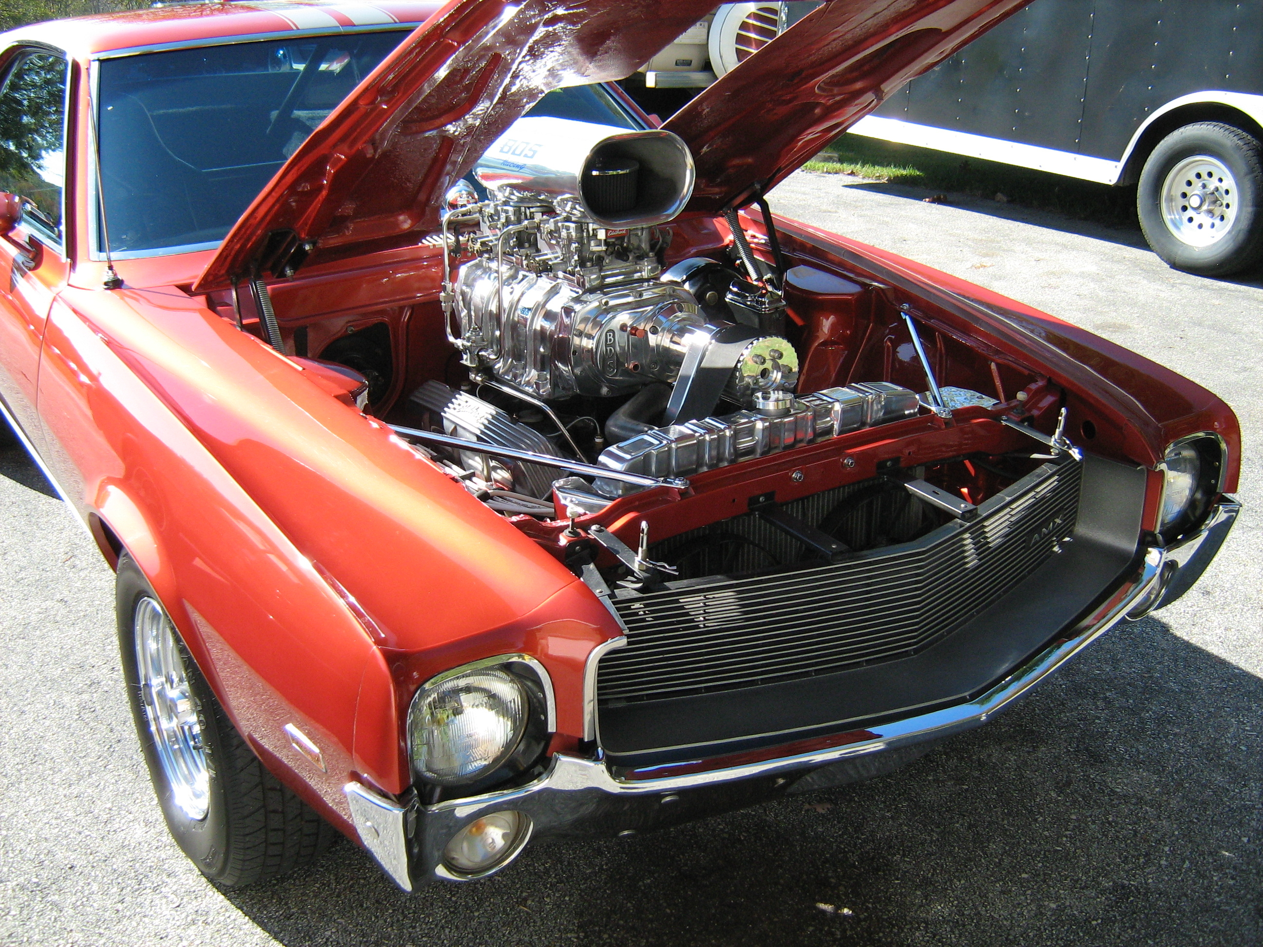 1968 AMX by American Motors Corporation (AMC), a two-seat muscle car. This has been customized for racing and tubbed to fit large drag racing slicks, as well as its AMC V8 engine upgraded with a supercharger (blower).